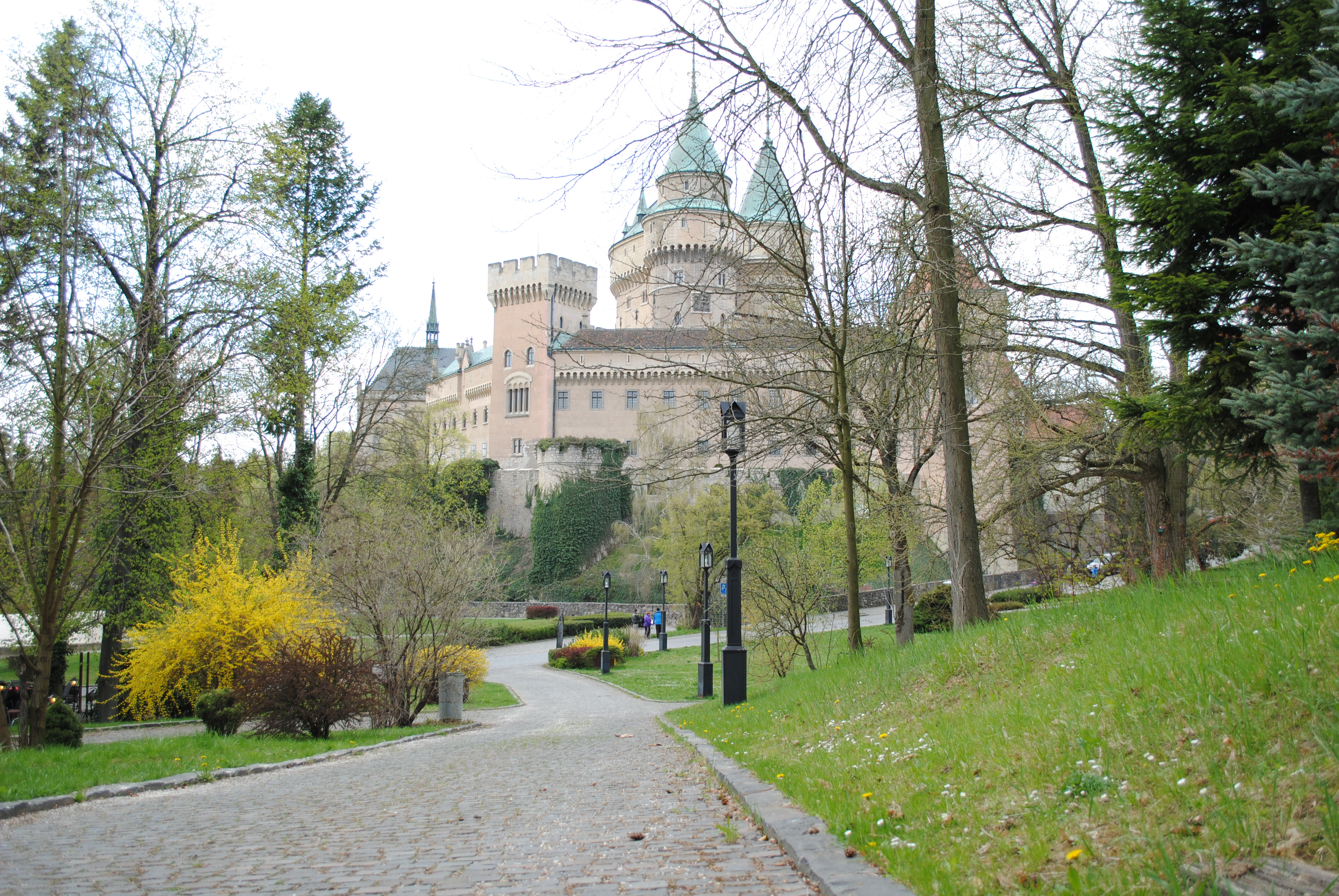 View from the park, Bojnice, Slovakia